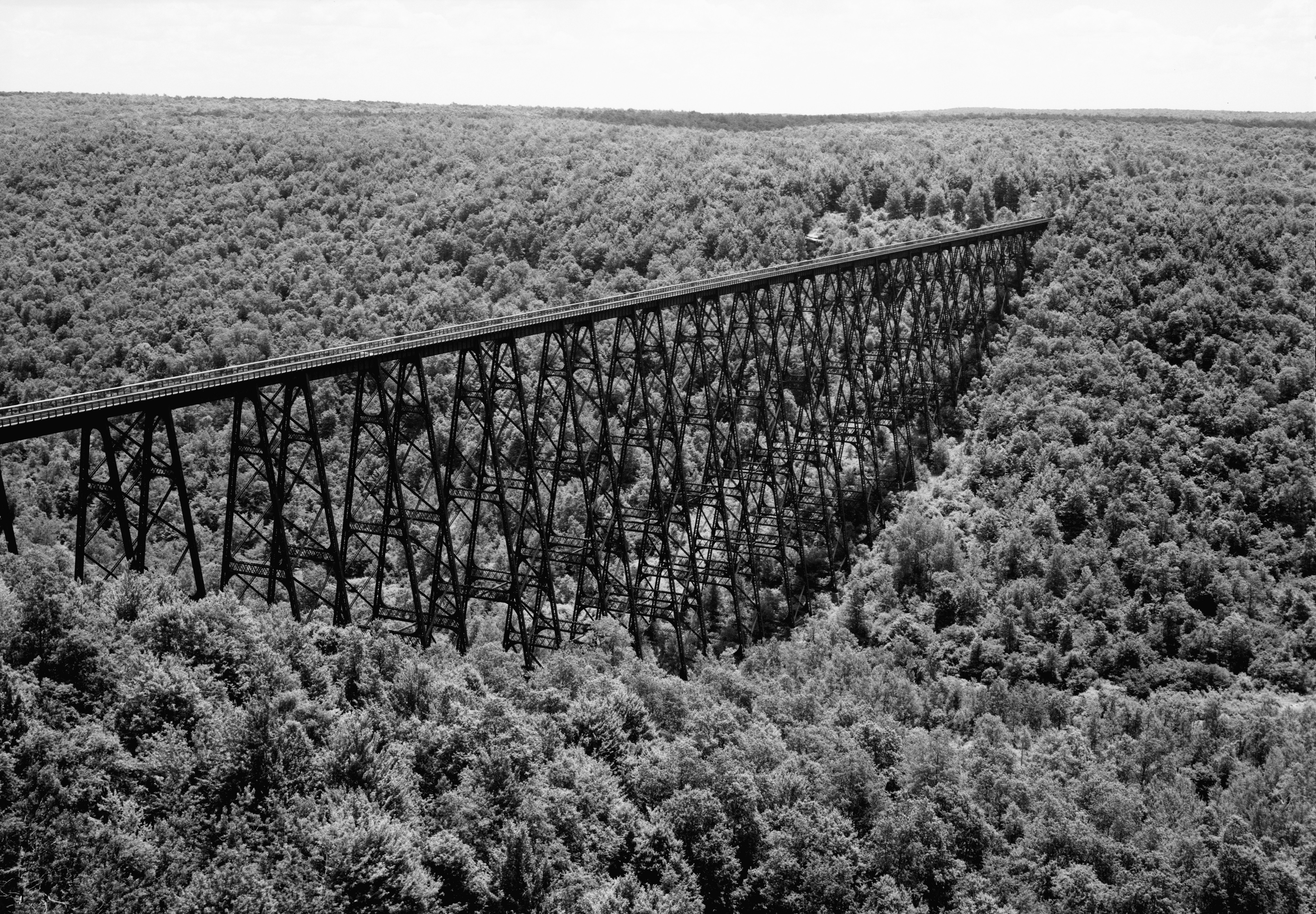 The Kinzua Bridge in McKean County, Pennsylvania.